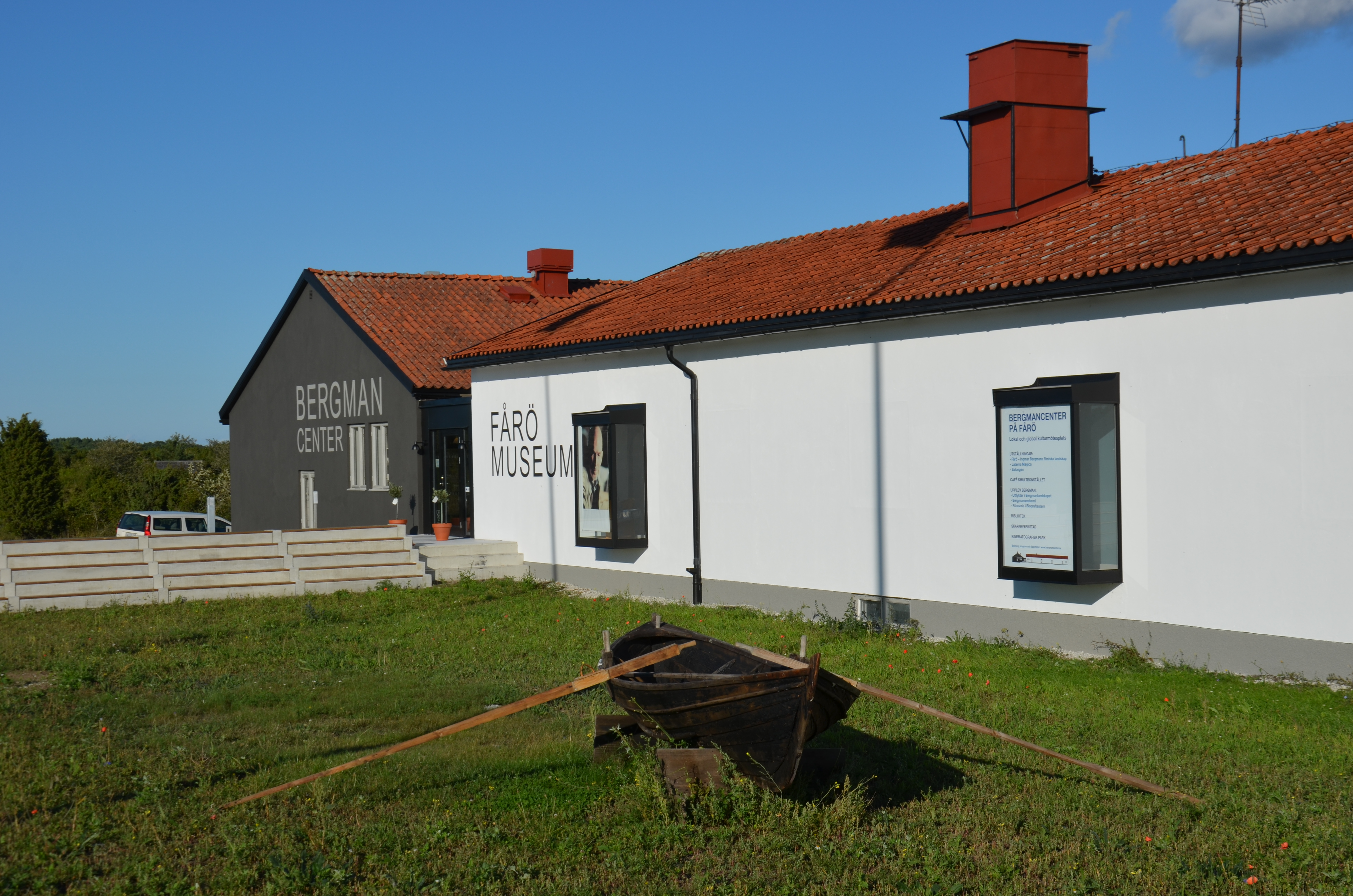 Bergmancenter på Fårö